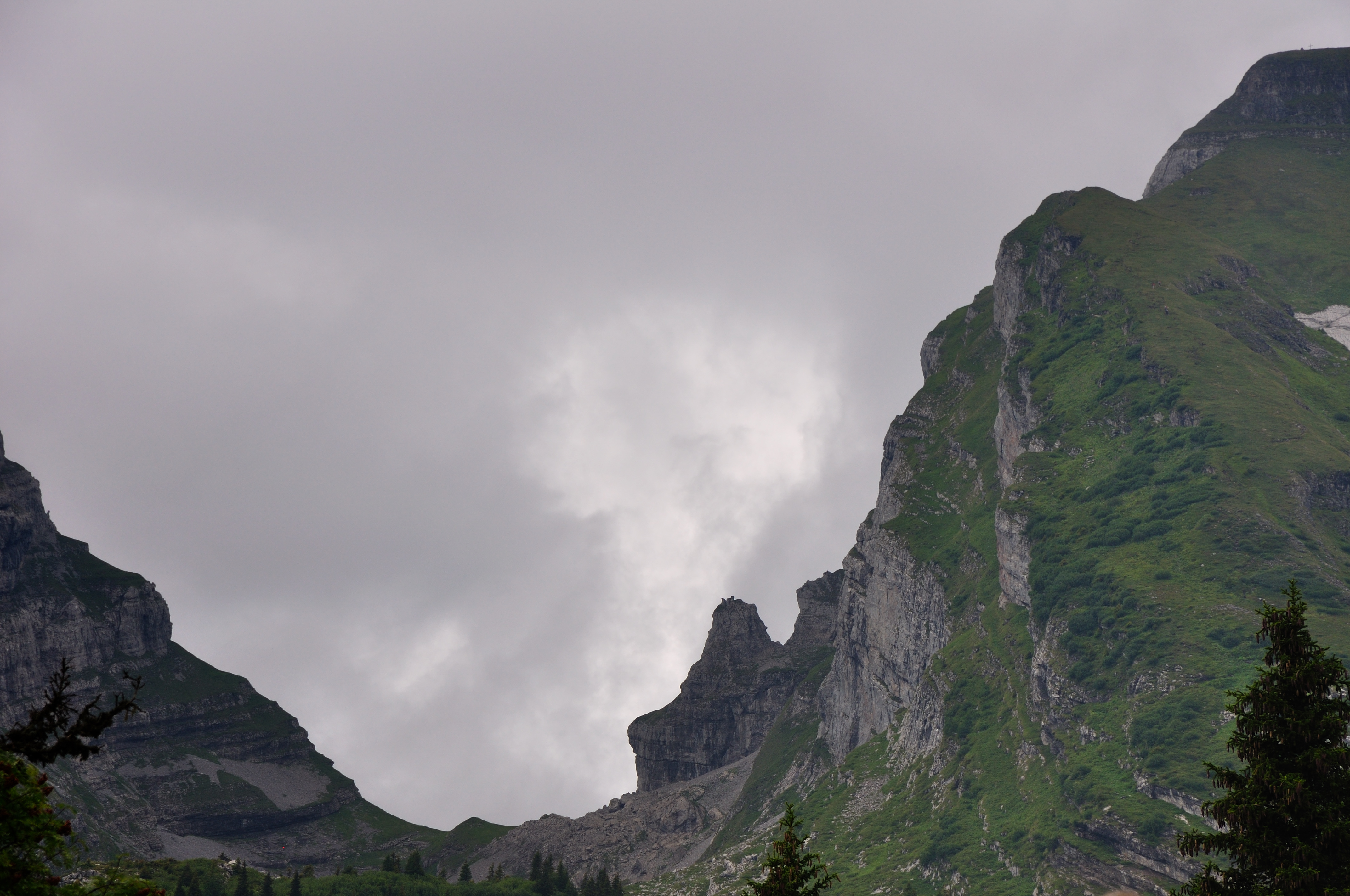 Switzerland, Canton of St. Gallen, saddle between Zuestoll (right) and Schibenstoll